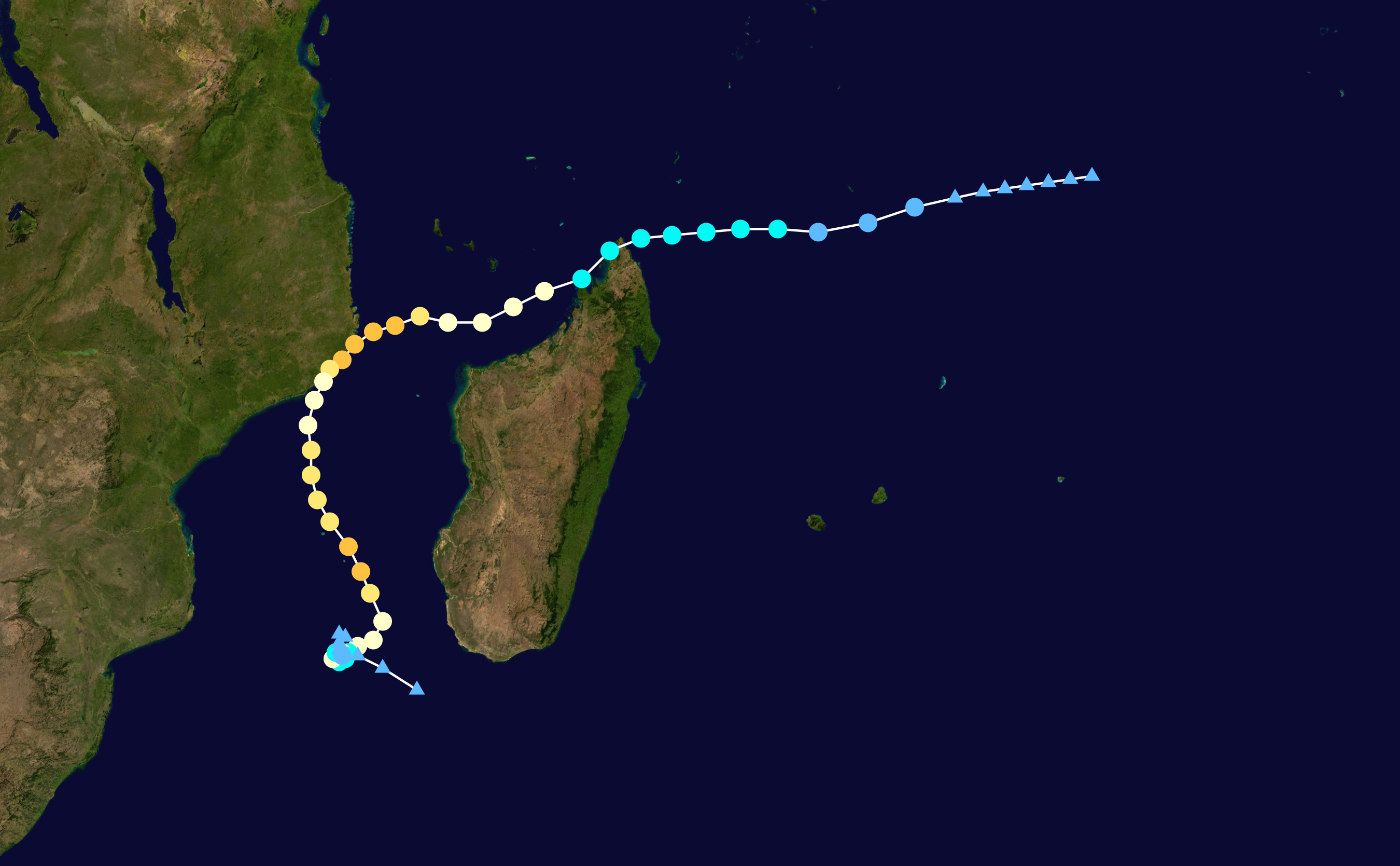 Track map of Intense Tropical Cyclone Jokwe of the 2007-08 South West Indian Ocean cyclone season. The points show the location of the storm at 6-hour intervals. The colour represents the storm's maximum sustained wind speeds as classified in the Saffir–Simpson scale (see below), and the shape of the data points represent the nature of the storm, according to the legend below. Saffir–Simpson scale Tropical depression≤38 mph≤62 km/h Category 3111–129 mph178–208 km/h Tropical storm39–73 mph63–118 km/h Category 4130–156 mph209–251 km/h Category 174–95 mph119–153 km/h Category 5≥157 mph≥252 km/h Category 296–110 mph154–177 km/h Unknown Storm type Tropical cyclone Subtropical cyclone Extratropical cyclone / Remnant low / Tropical disturbance / Monsoon depression